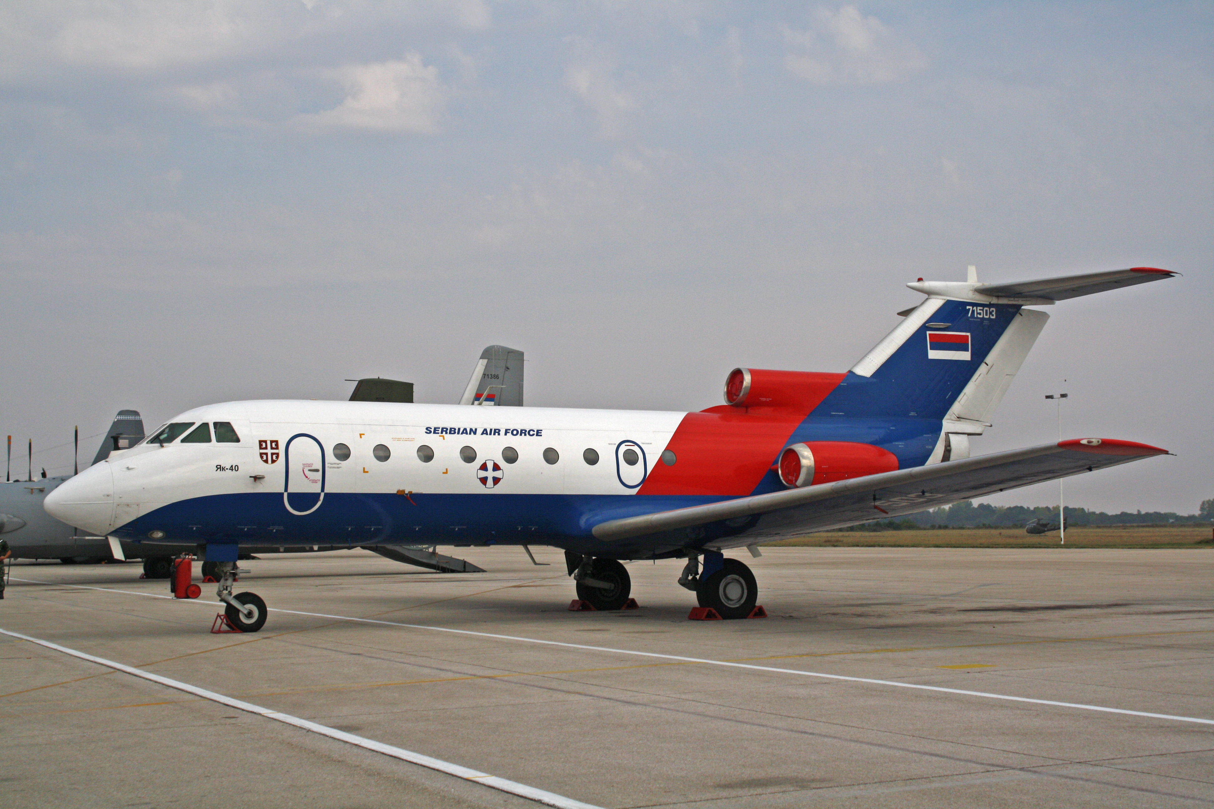 Overhauled Yak-40 No.71503 of 138. Mixed-Transport-Aviation Squadron, 204th Air Base of Serbian Air Force, on display at Batajnica airbase at Batajnica airbase during the Batajnica 2009 airshow.